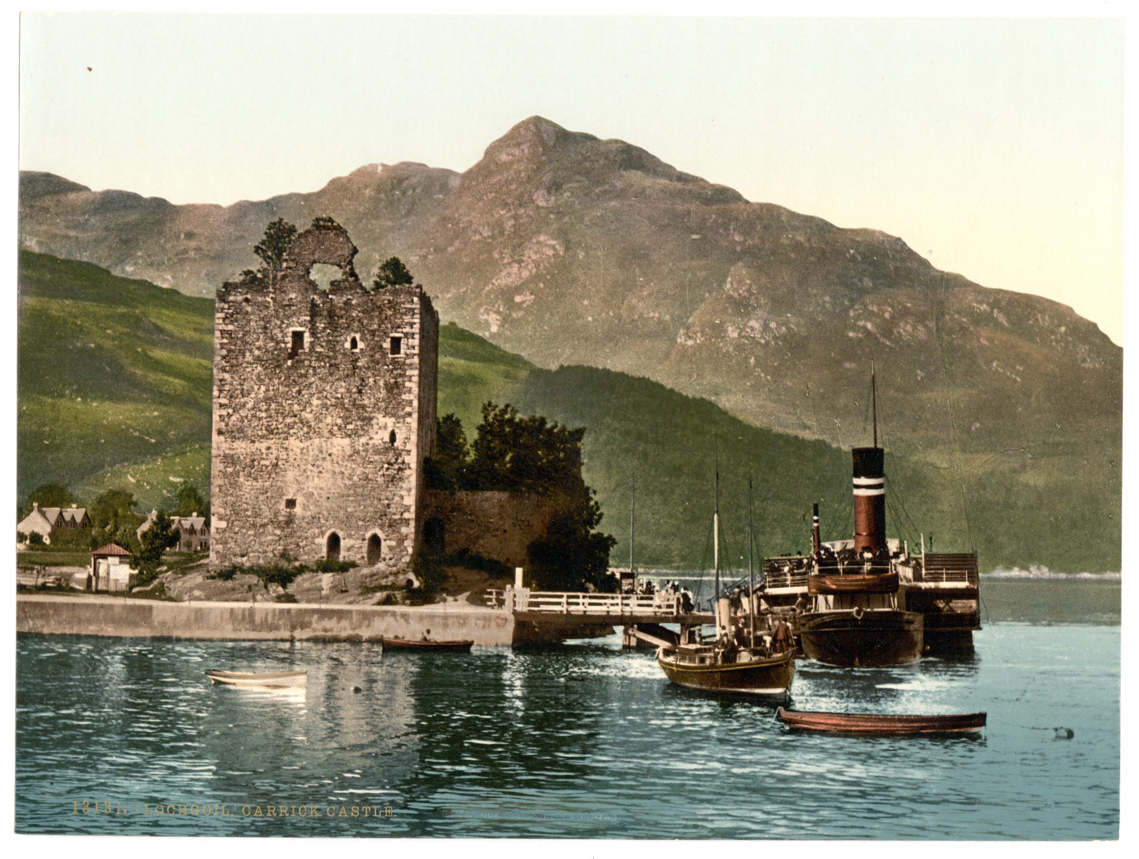 Title from the Detroit Publishing Co., catalogue J-foreign section. Detroit, Mich. : Detroit Photographic Company, 1905.; More information about the Photochrom Print Collection is available at Print no. "13131".; Forms part of: Views of landscape and architecture in Scotland in the Photochrom print collection.